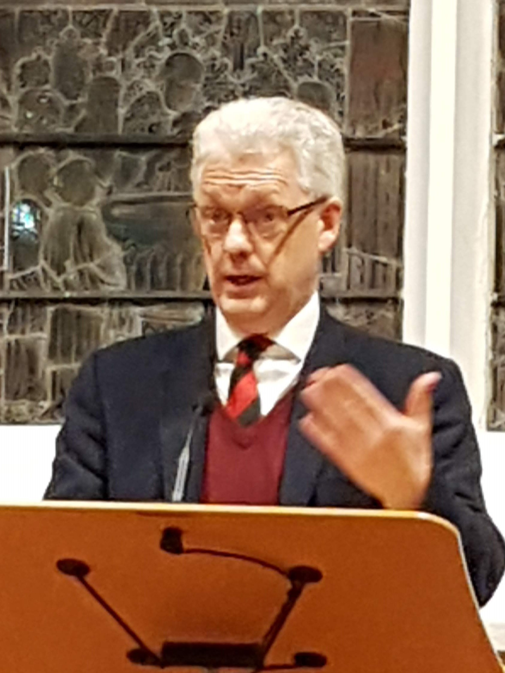 Professor Ian H. White speaking at the Faraday Institute annual reception, November 2018